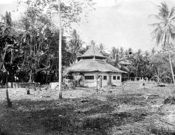 Mosque and cemetery at Angké, Batavia